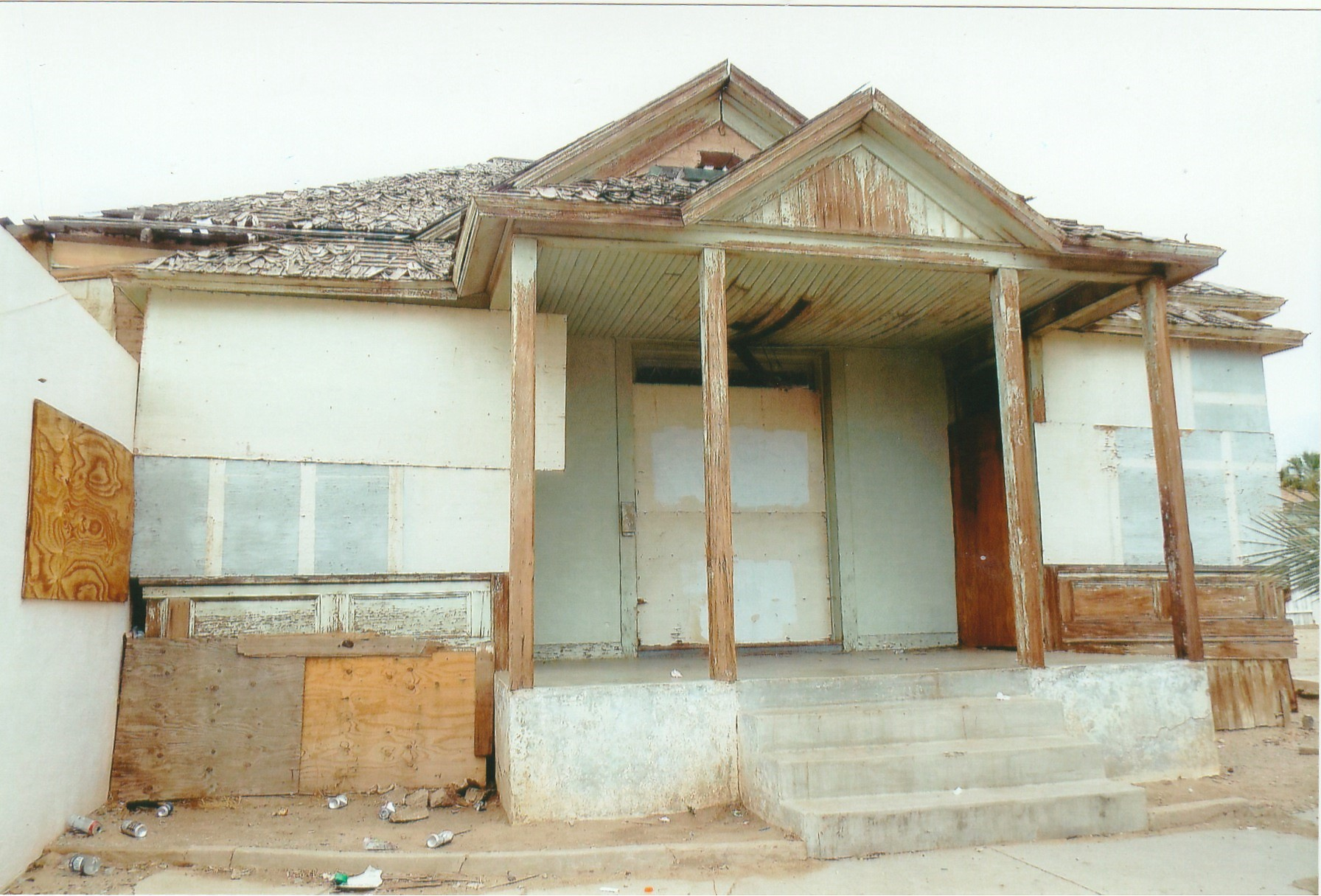 The Peter Hodge House in total abandonment in Yuma